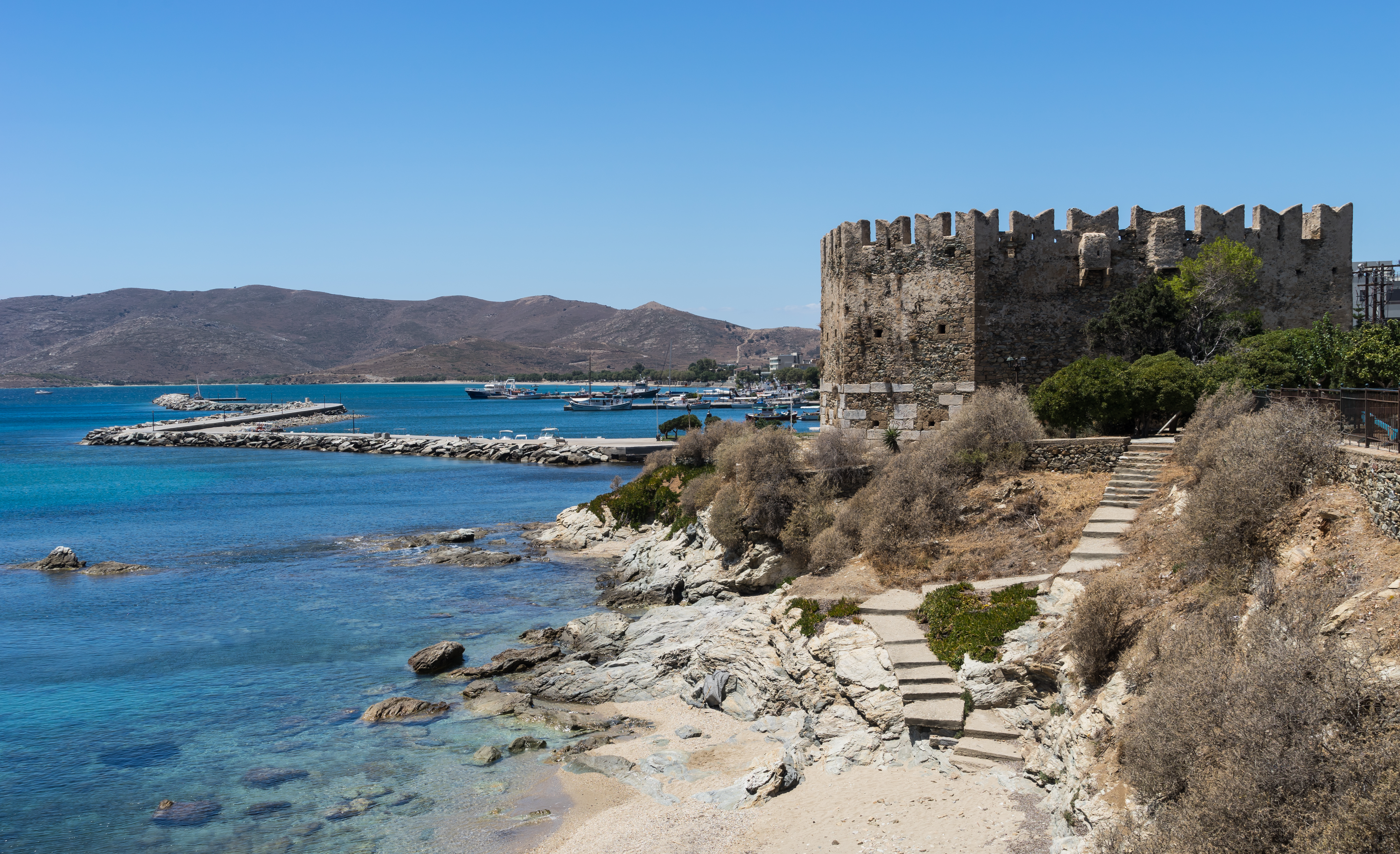 Bourtzi castle and harbour of Karystos, Euboea, Greece